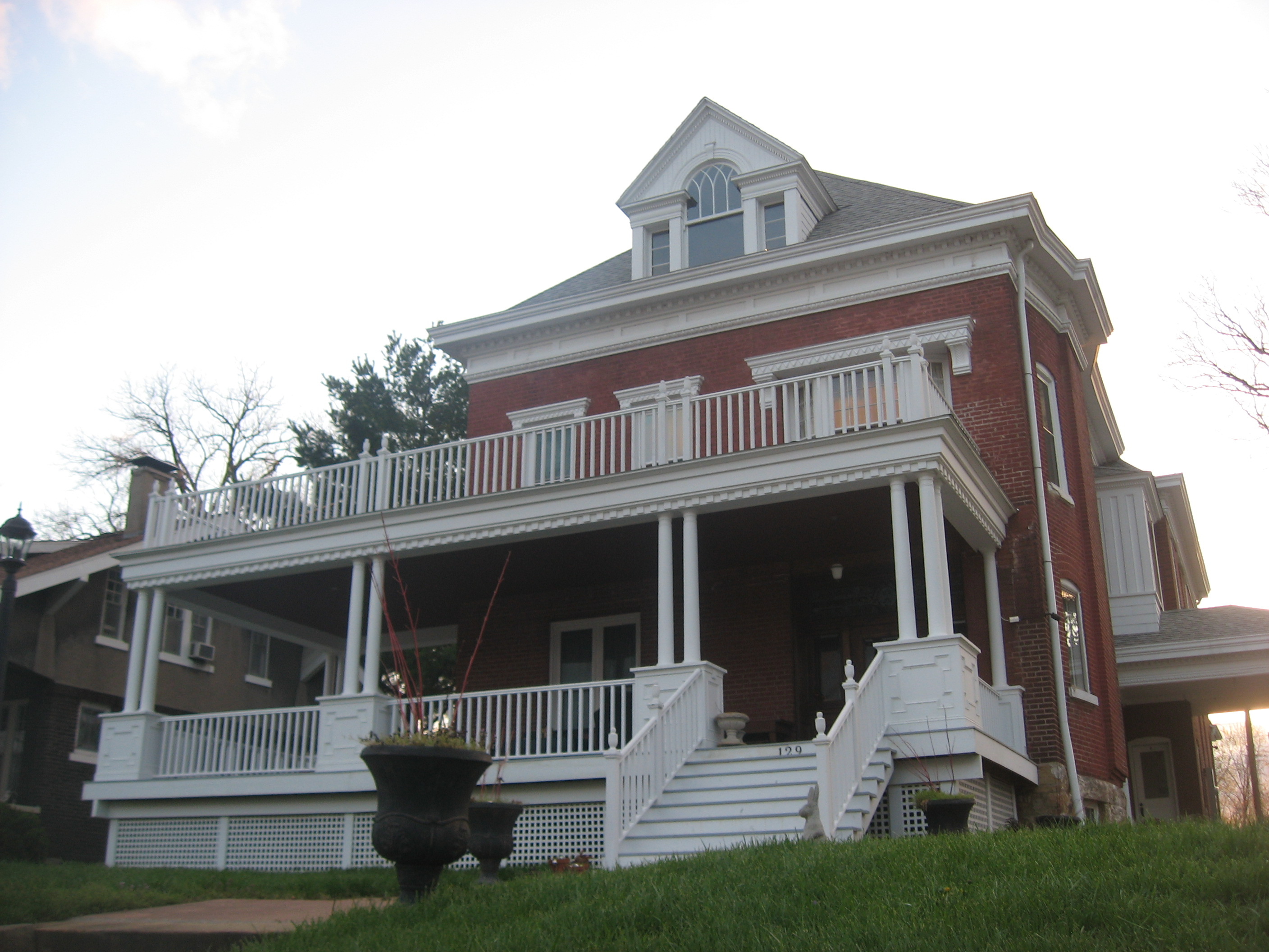 Front of the Edward S. and Mary Annatoile Albert Lilly House, located at 129 S. Lorimier Street in Cape Girardeau, Missouri, United States. Built in 1897, it is listed on the National Register of Historic Places, and it is part of a Register-listed historic district, the Courthouse-Seminary Neighborhood Historic District.